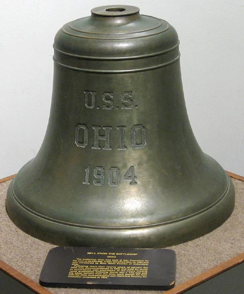 Photo by George C. Campbell, December 4, 2005